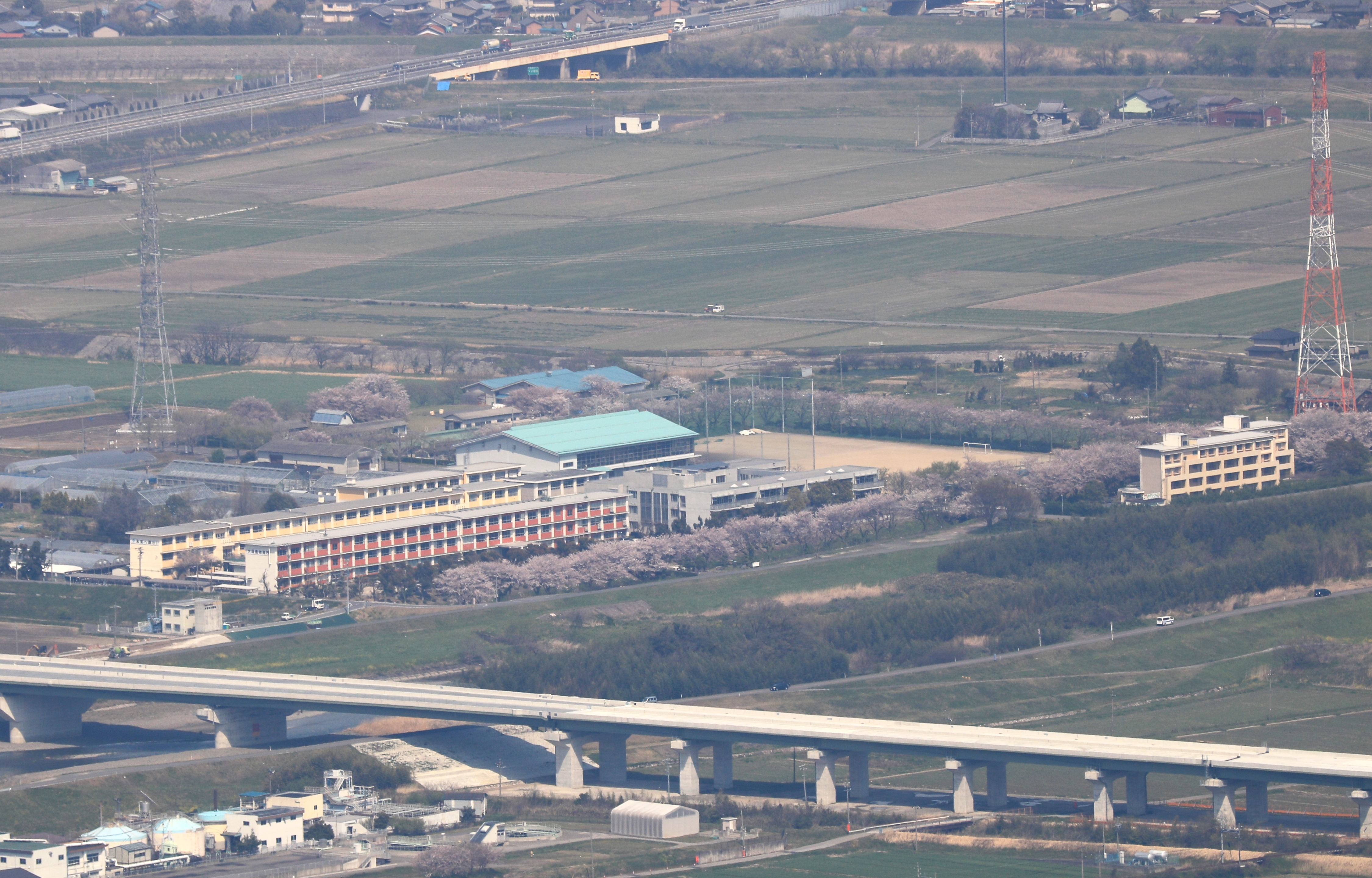 Ogakiyoro High School seen from Yōrō Mountains in Yōrō, Gifu prefecture, Japan.